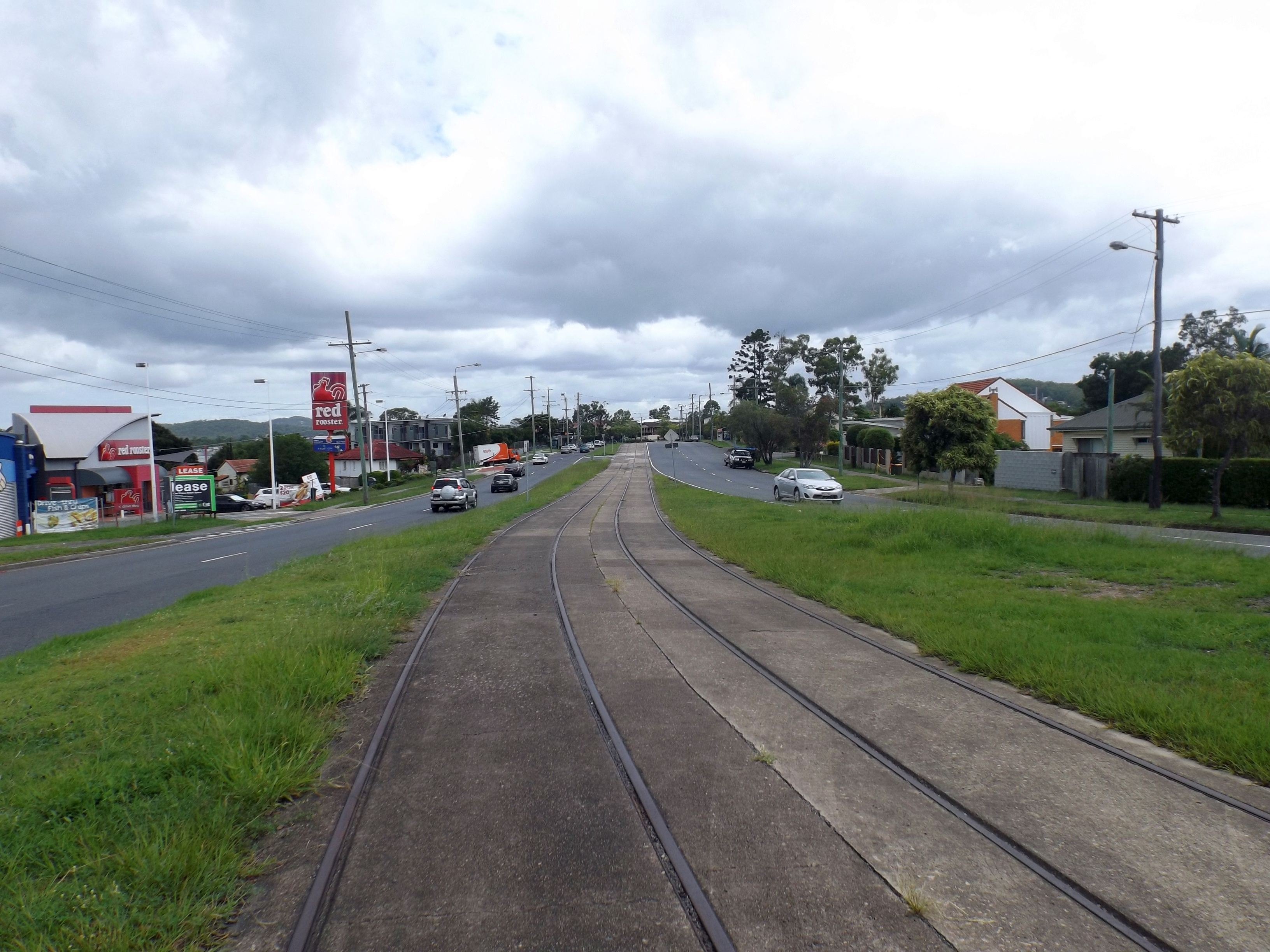 Photo of Old Cleveland Road Tramway Tracks at Carina, Brisbane, Queensland, Australia.